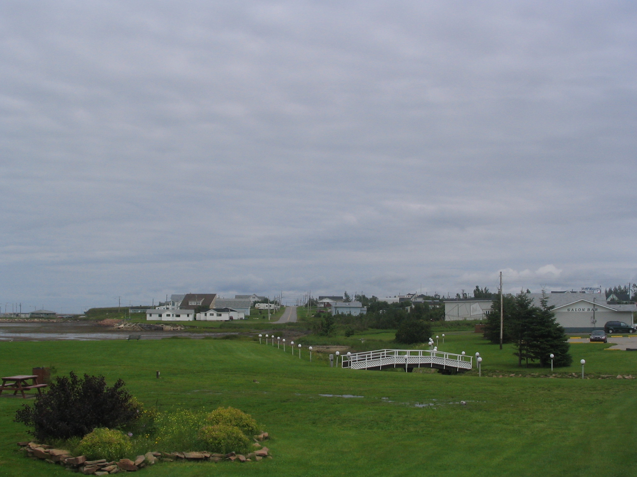 The Gabriel-Giraud site in Bas-Caraquet, New Brunswick, Canada.